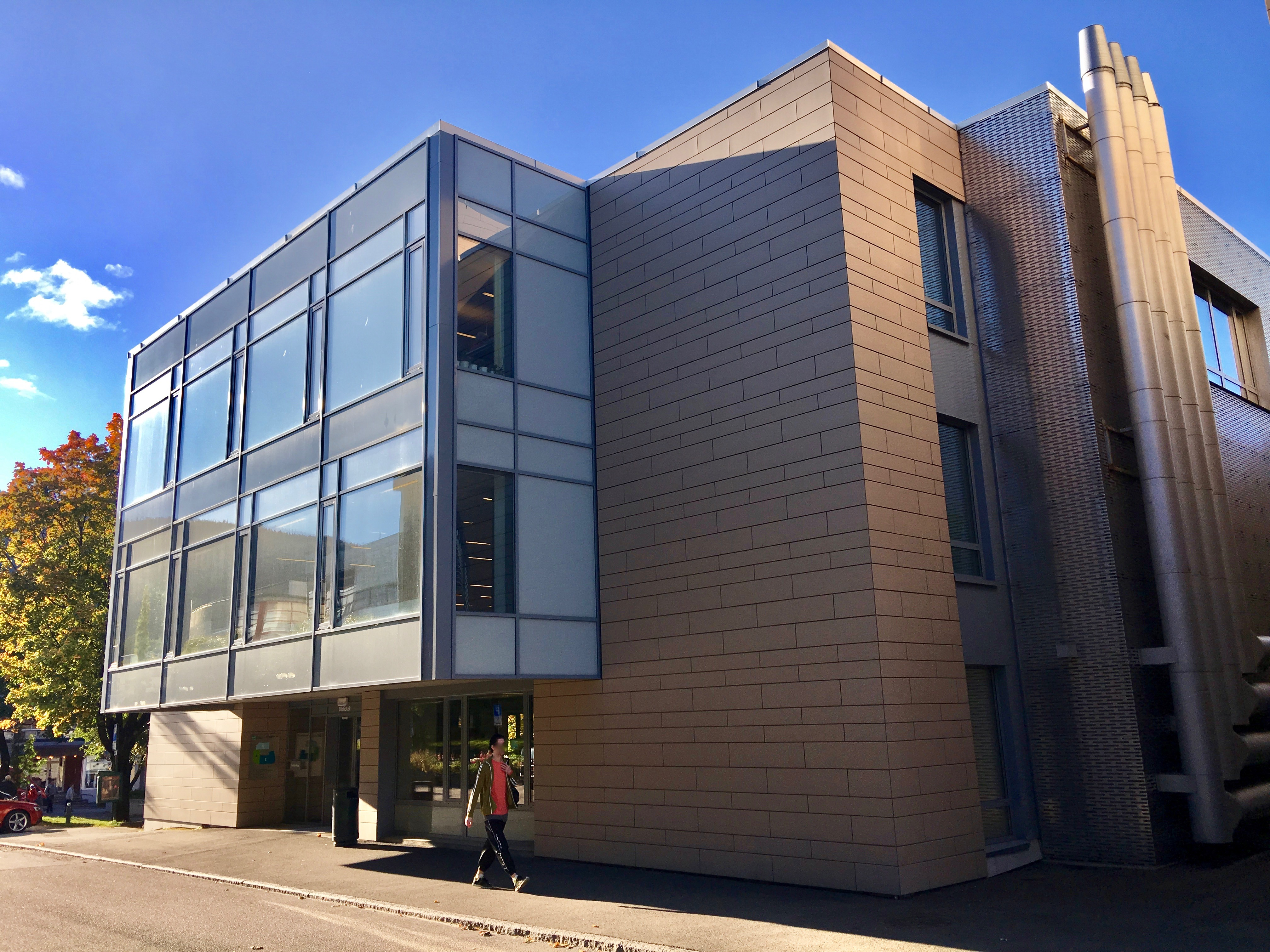 Rana Public Library (Rana bibliotek)/Nord University Library (biblioteket ved Nord universitet) building in Torggata 1A, Mo i Rana, Norway.